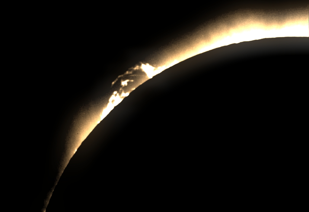 Amateur image of protuberance of the sun taken during an eclipse